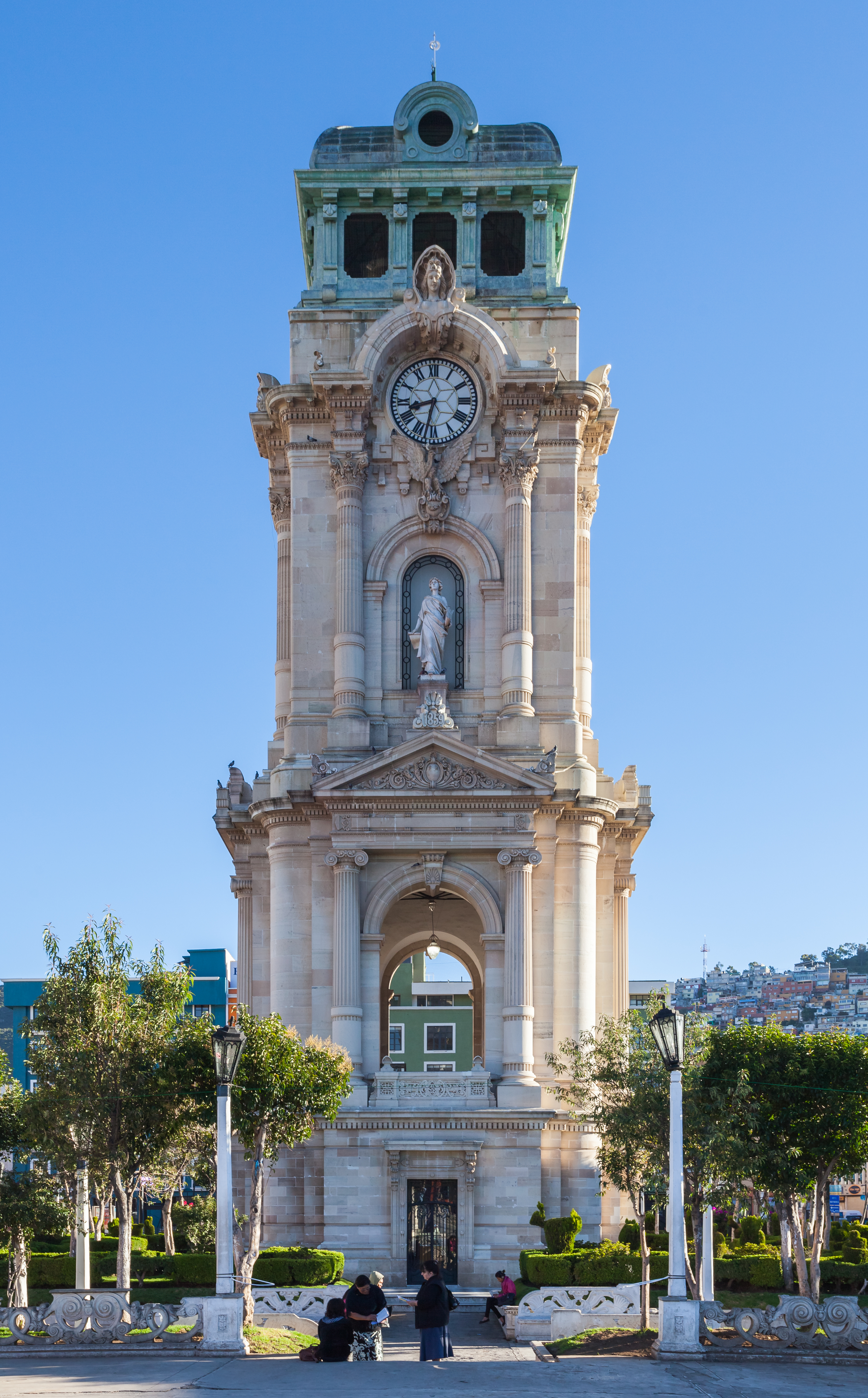 Monumental Clock, Pachuca, Hidalgo, Mexico